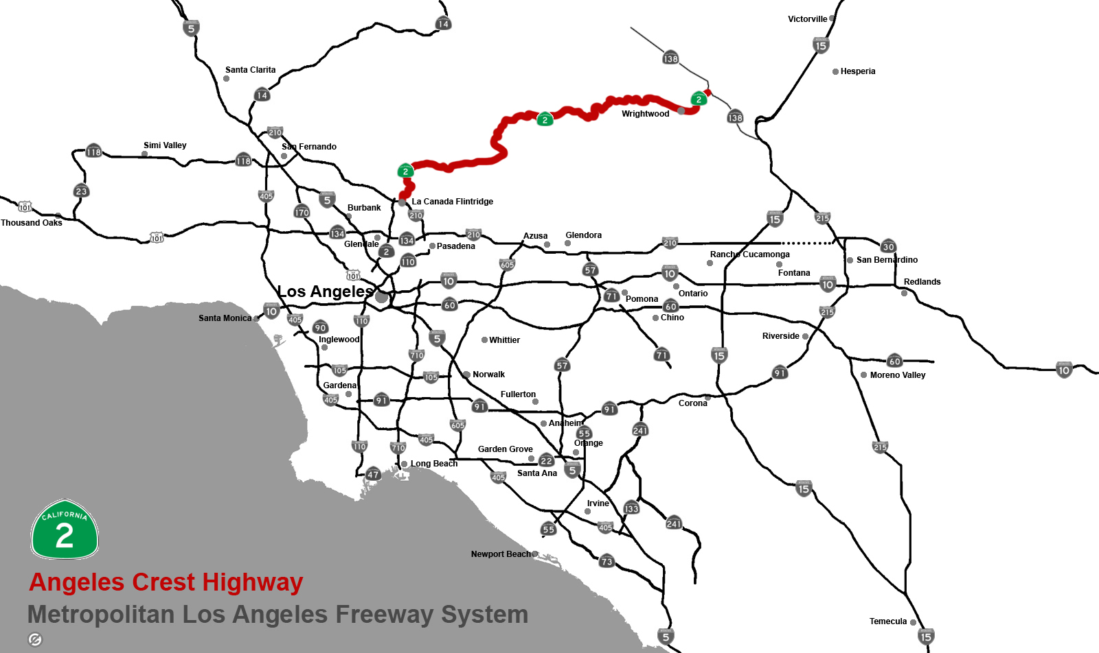 Map of Angeles Crest Highway — highlighted on map of the Metropolitan Los Angeles highways and freeways system. Northeastern scenic section of California State Route 2 in the San Gabriel Mountains.